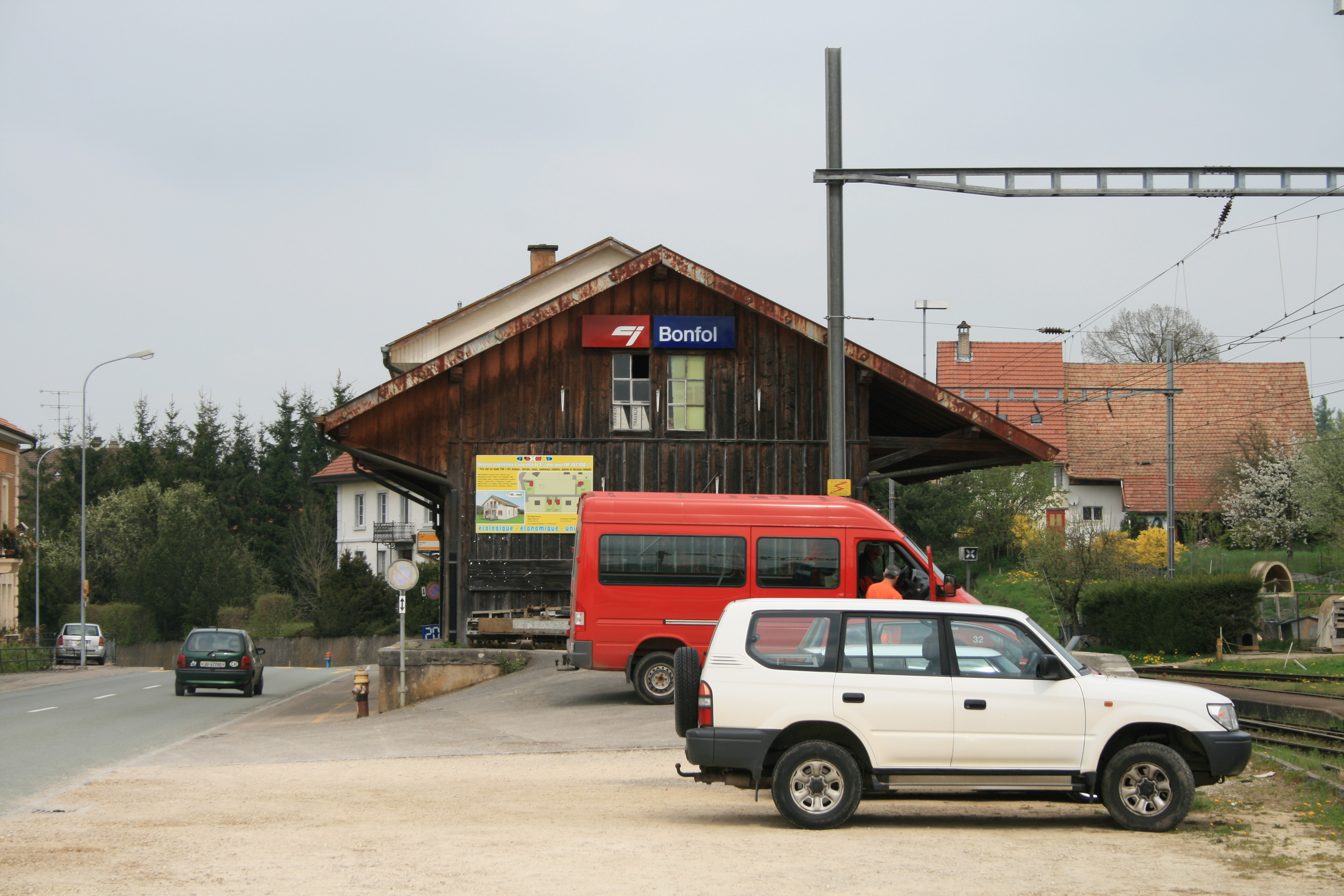 Railwaystation Bonfol JU, Switzerland